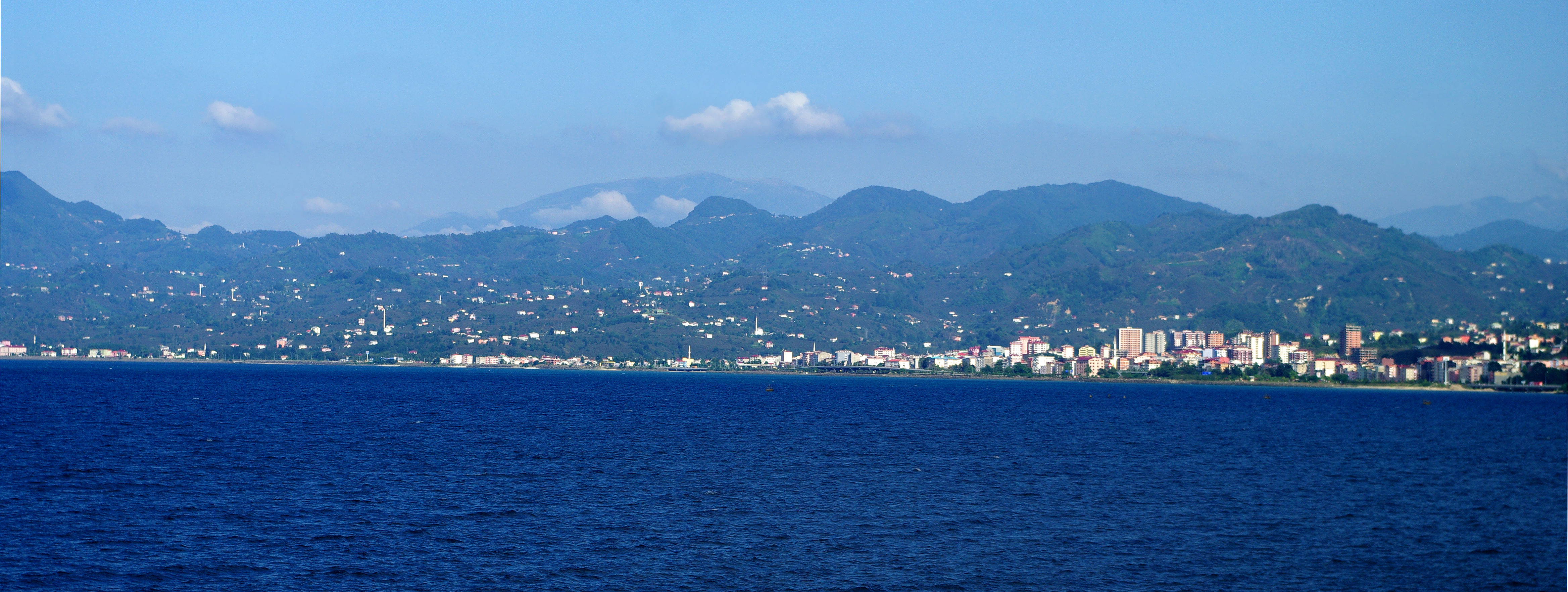 A view of Espiye town, administrative center of Espiye District of Giresun Province located in Eastern Black Sea Region of Turkey.